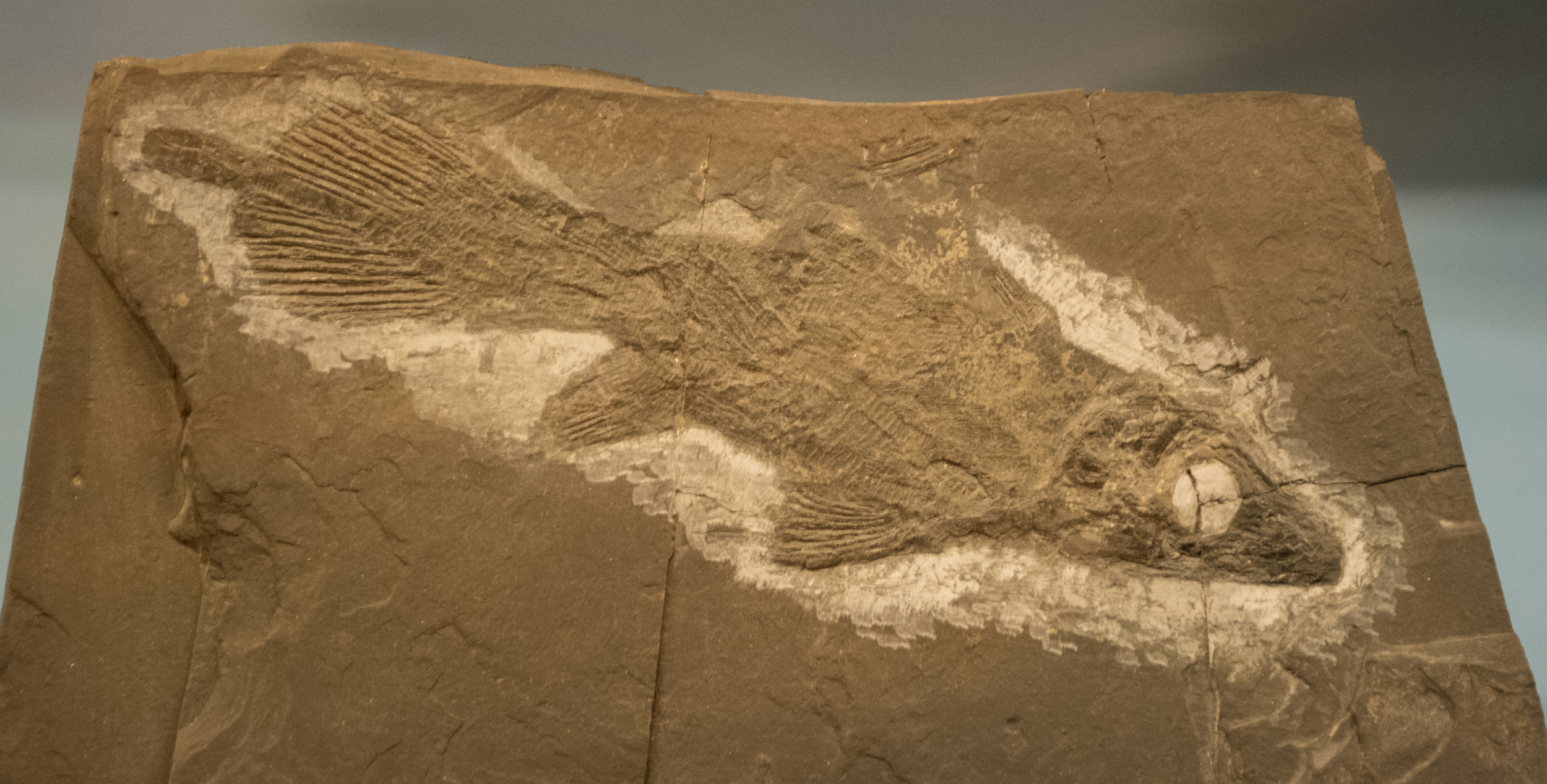 Fossil of the coelacanth (i.e. crossopterygian) fish Diplurus from the Upper Triassic or Lower Jurassic of New Jersey (Newark Supergroup) on display in the Cleveland Museum of Natural History's Kirtland Hall.